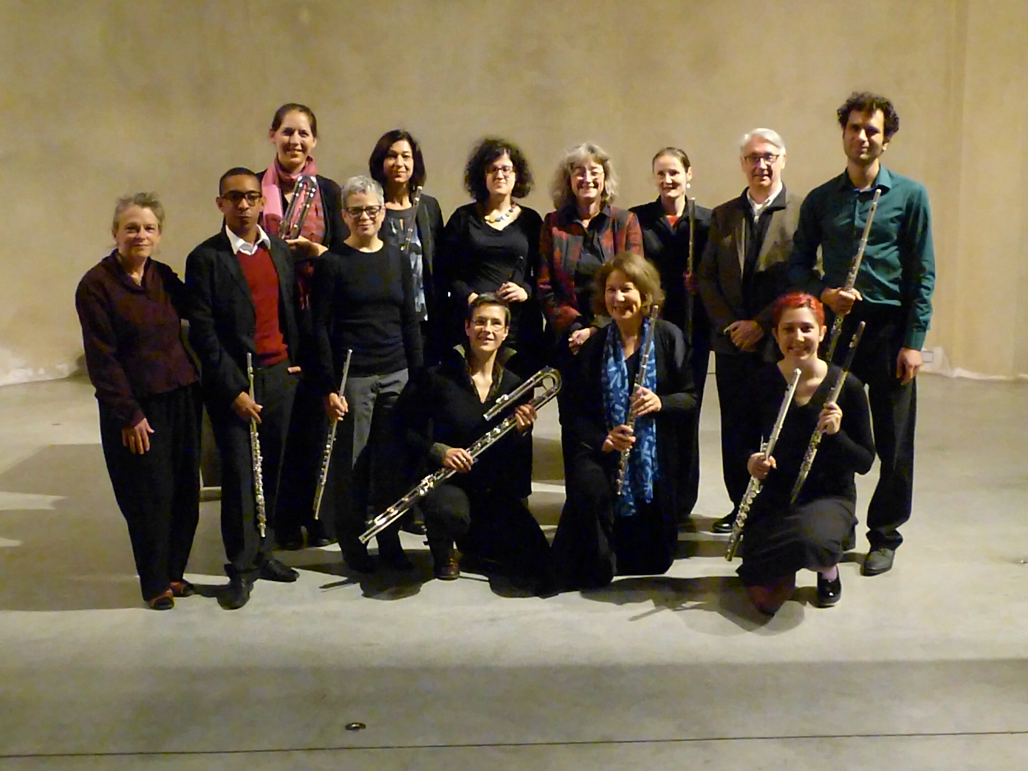 Mary Jane Leach (comp), Kevin Volans (comp), Camilla Hoitenga (fl) and The Flute Project in concert „Resonant Flutes - News from Kevin Volans & Co“ during the concert event „Cologne Music Night“ at Kunst-Station Sankt Peter, Cologne, Germany, September 19th, 2015